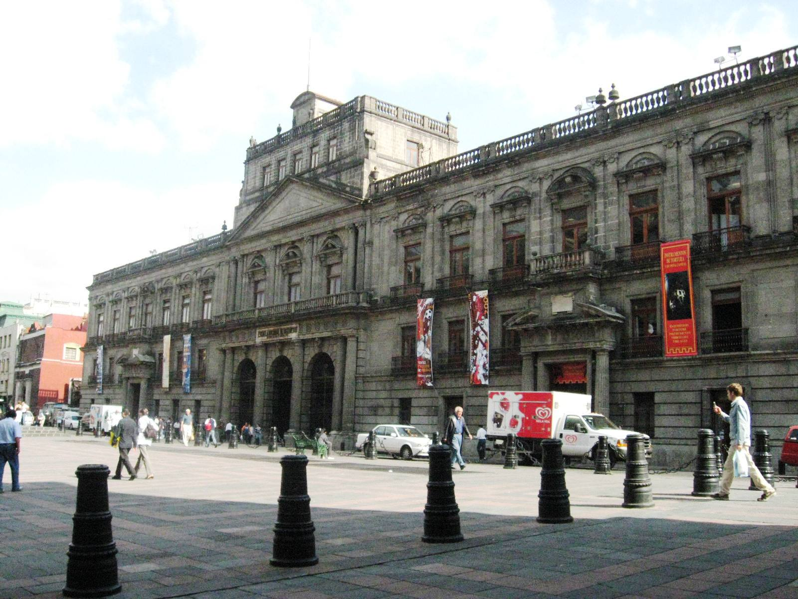 Colegio de Minería (College of Mining) building on Tacuba street in the historic Centro of Mexico City.